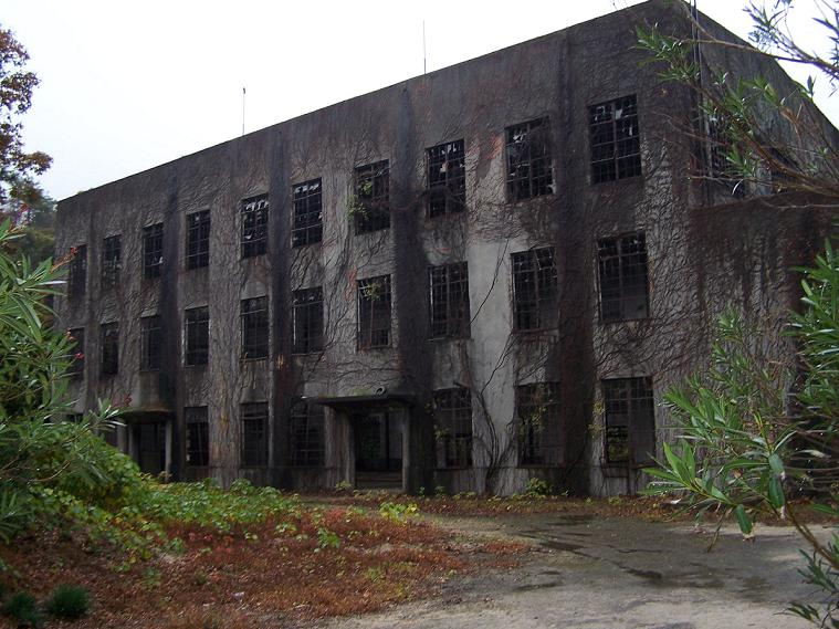 The poison gas factory ruins located on Okunoshima, Hiroshima Prefecture, Japan.